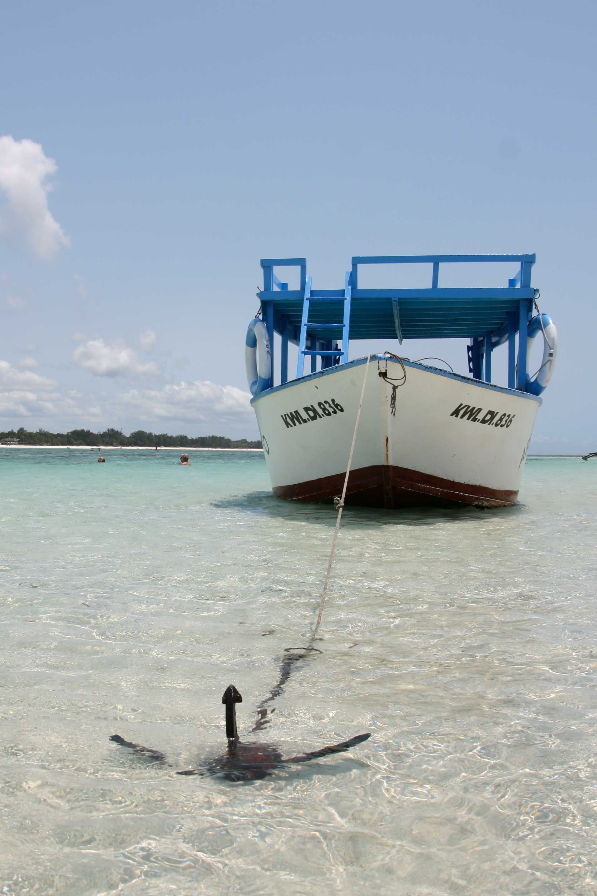 Motor Boat anchored on beach in Kenya